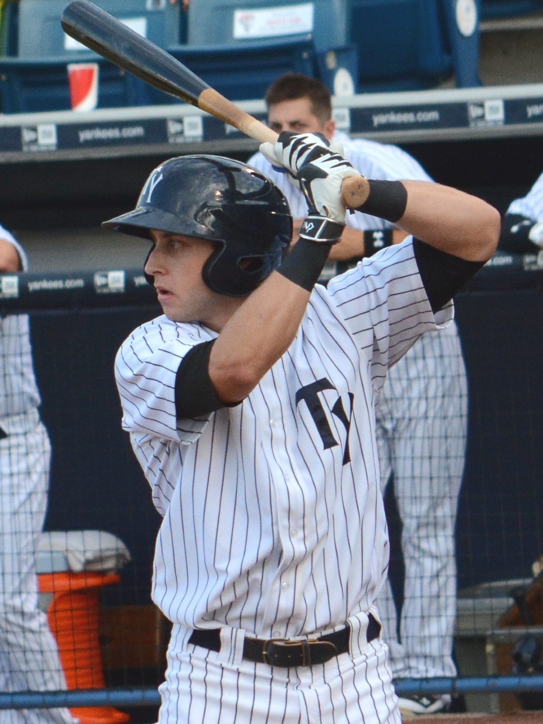 The Tampa Yankees' Dustin Fowler bats against Charlotte on July 16, 2015.